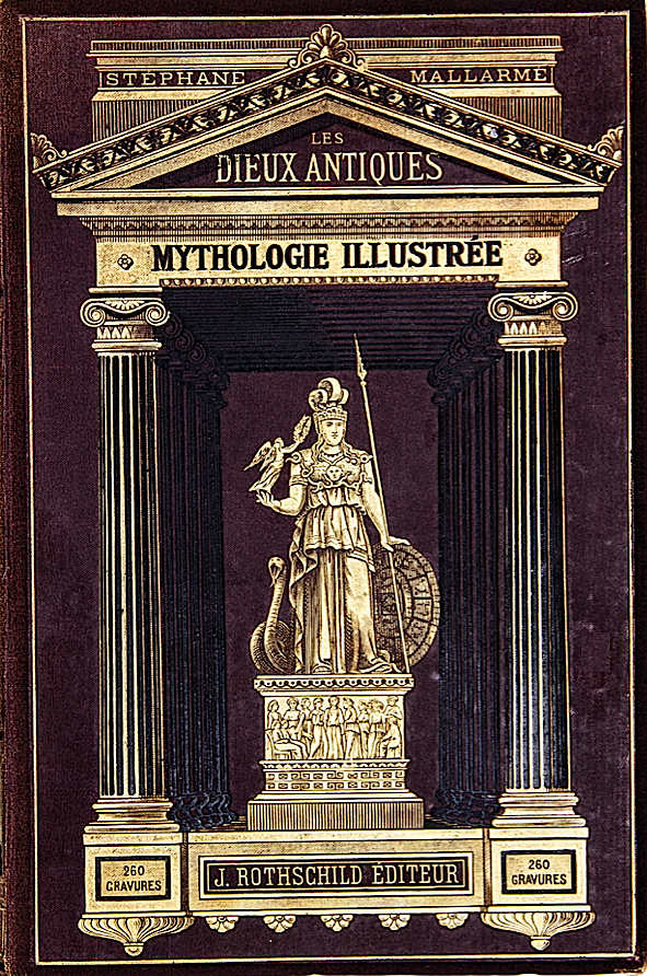 Hardcover of Les dieux antiques by Stéphane Mallarmé, a translation from George W. Cox, Paris, Jules Rothschild Publisher.